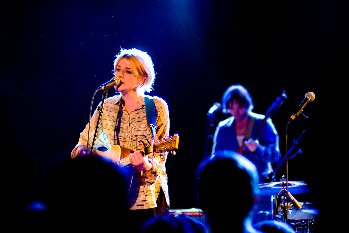 El Perro del Mar was the headliner. Similar indie pop to Lykke Li, but more mellow. Despite the name, they're from Sweden.